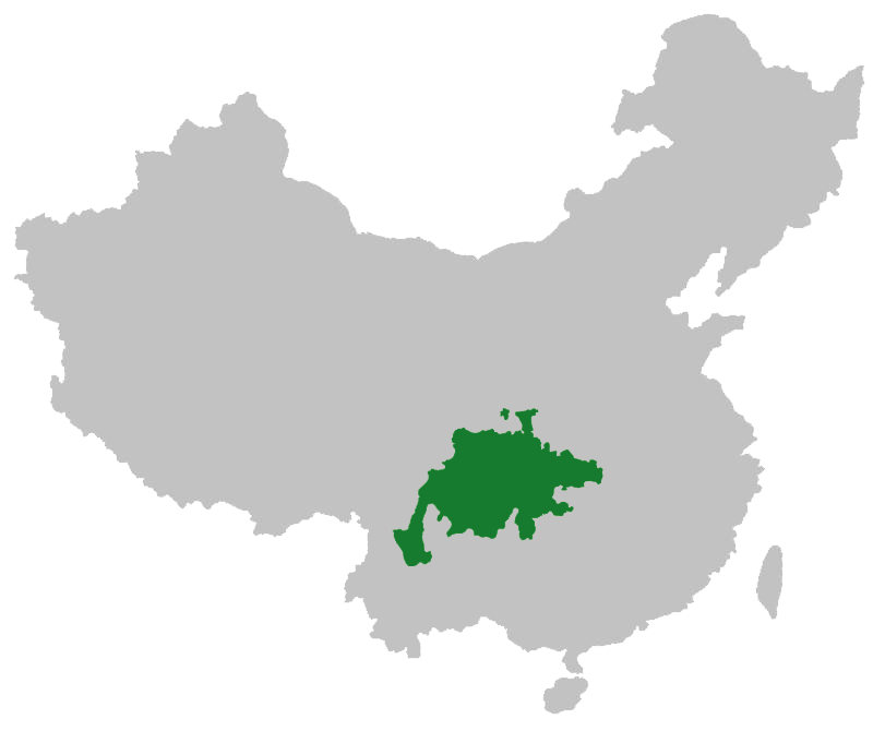 Linguistic map of Sichuanese in Greater China